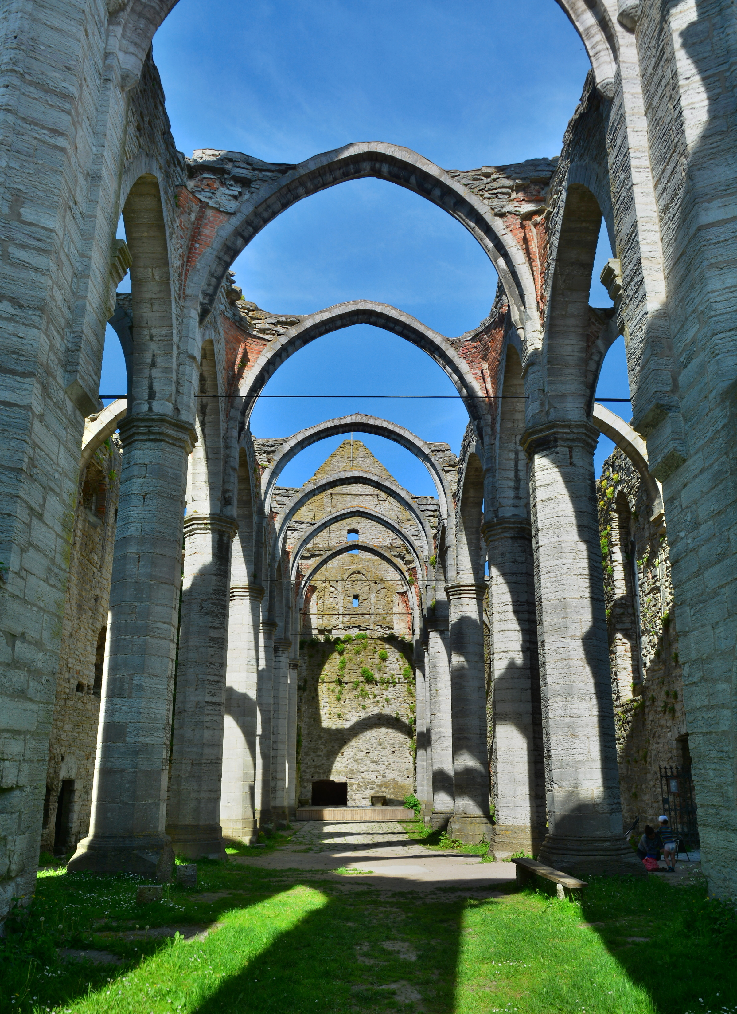 Saint Catherine church ruin in Visby